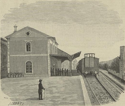 Drawing of the Cacém railway station, that opened on the 2nd April 1887. This image was originally published in the Occidente magazine No. 304, of the 1st June 1887, and scanned by the Hemeroteca Municipal de Lisboa